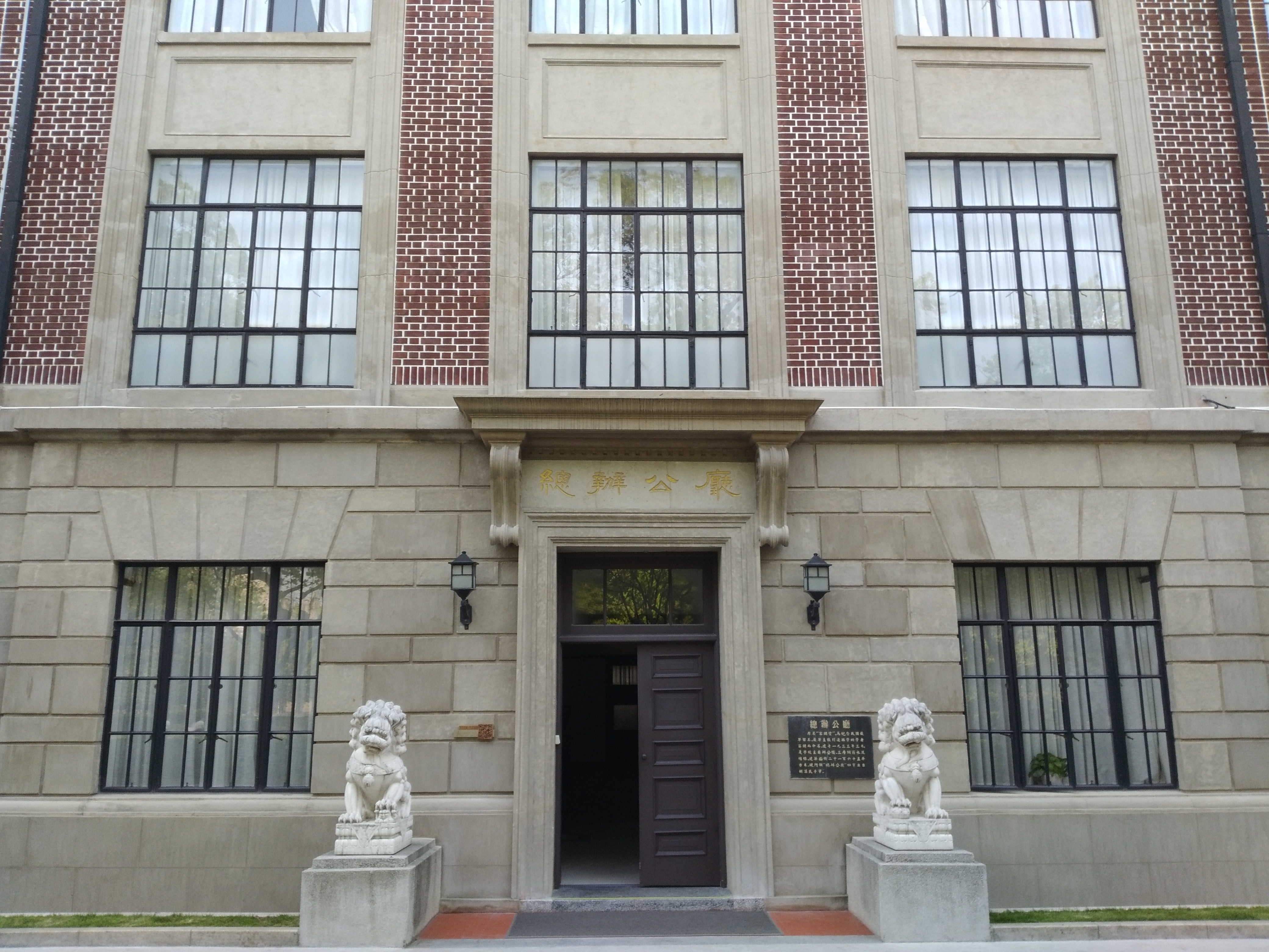 Administrative building on Xuhui campus